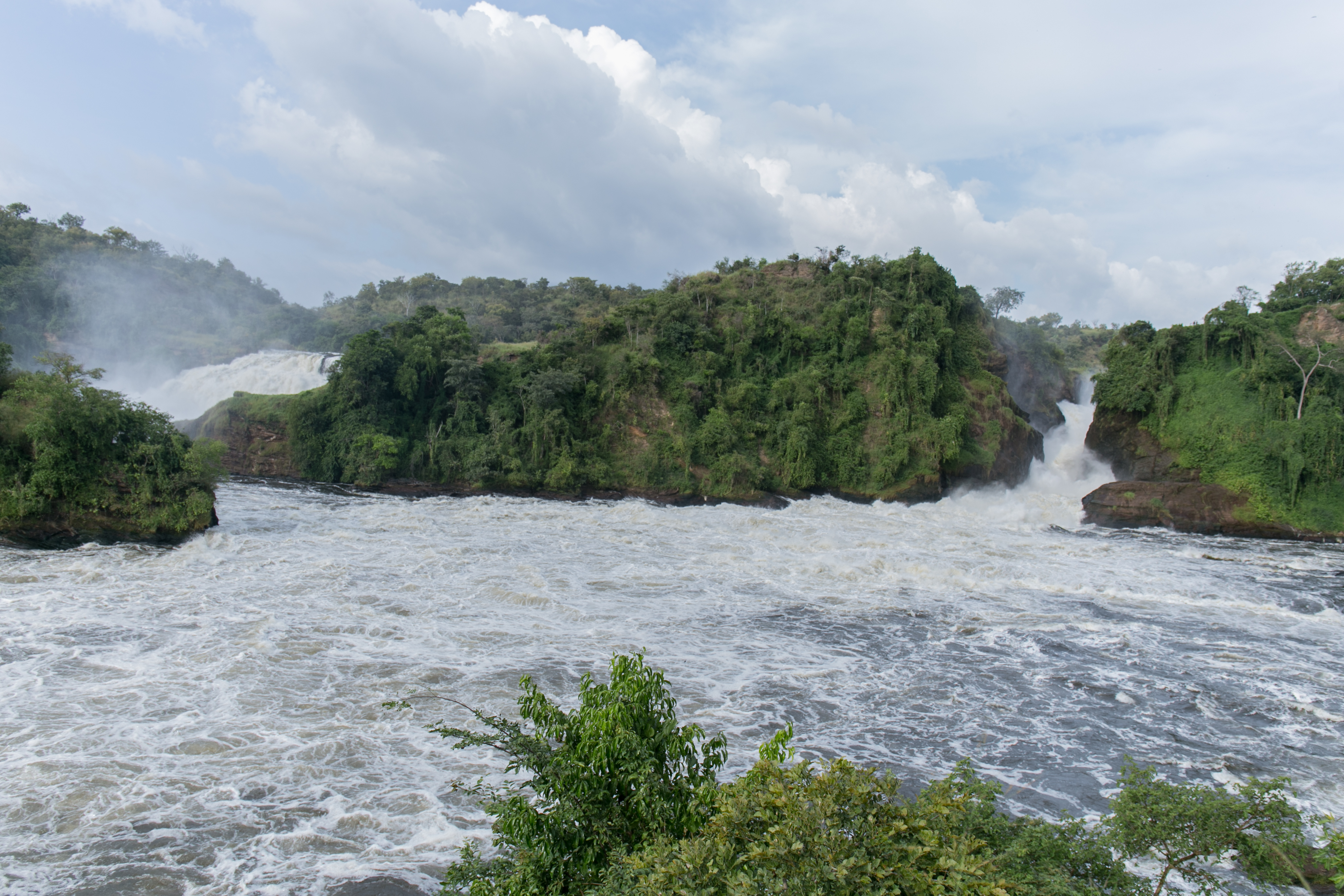 Murchison falls